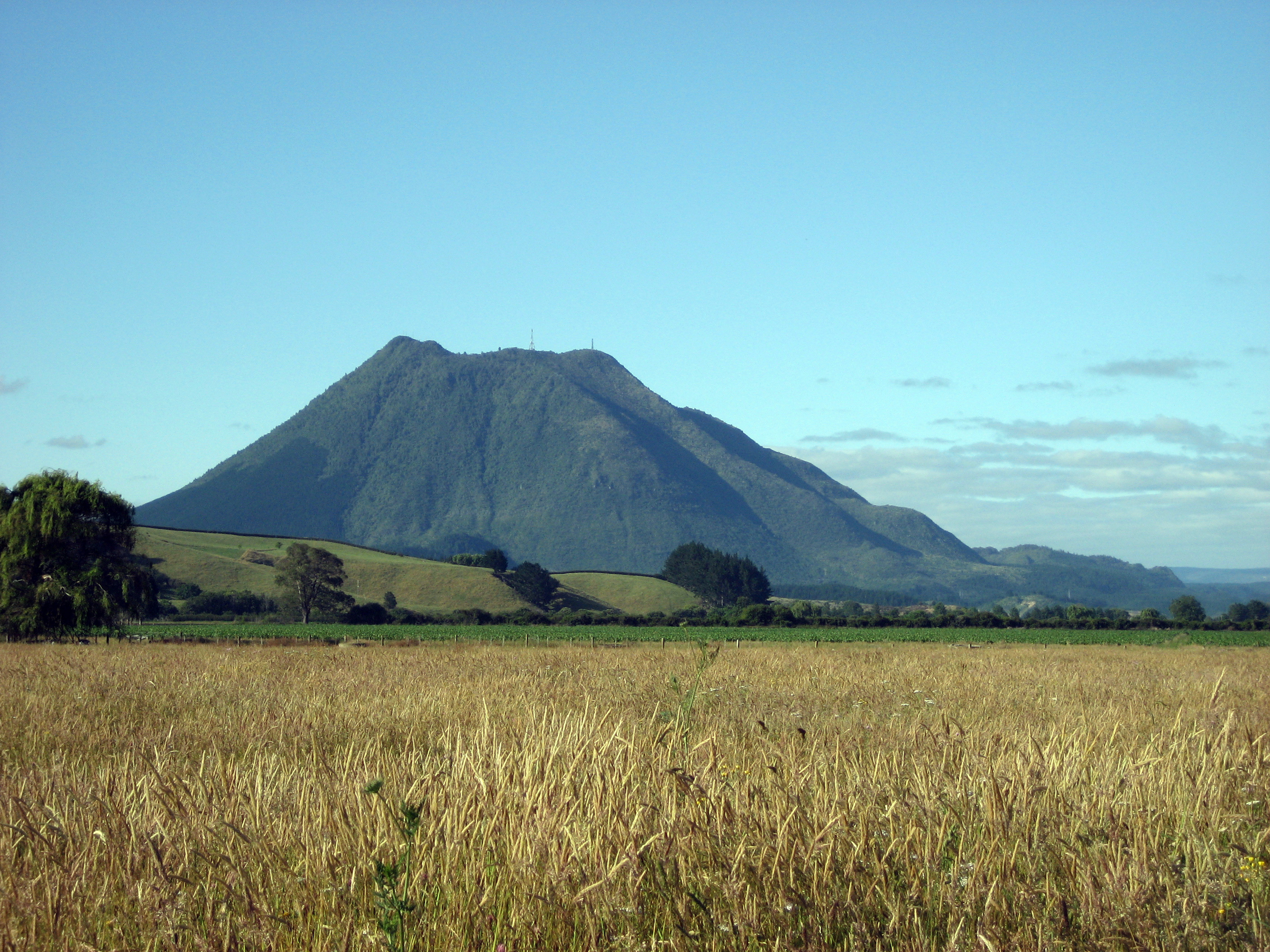 Mount Edgecumbe/Pūtauaki, a dormant volcano, Eastern Bay of Plenty, New Zealand, near Whakatane.